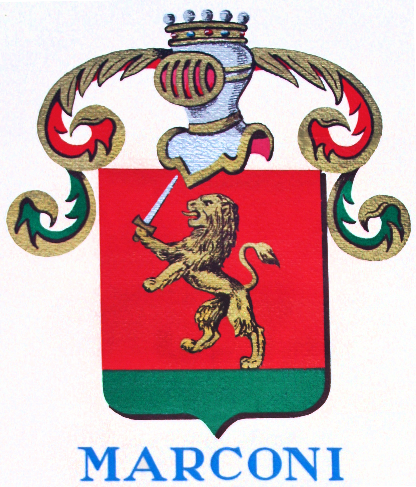 coat of arms of the house of Marconi.